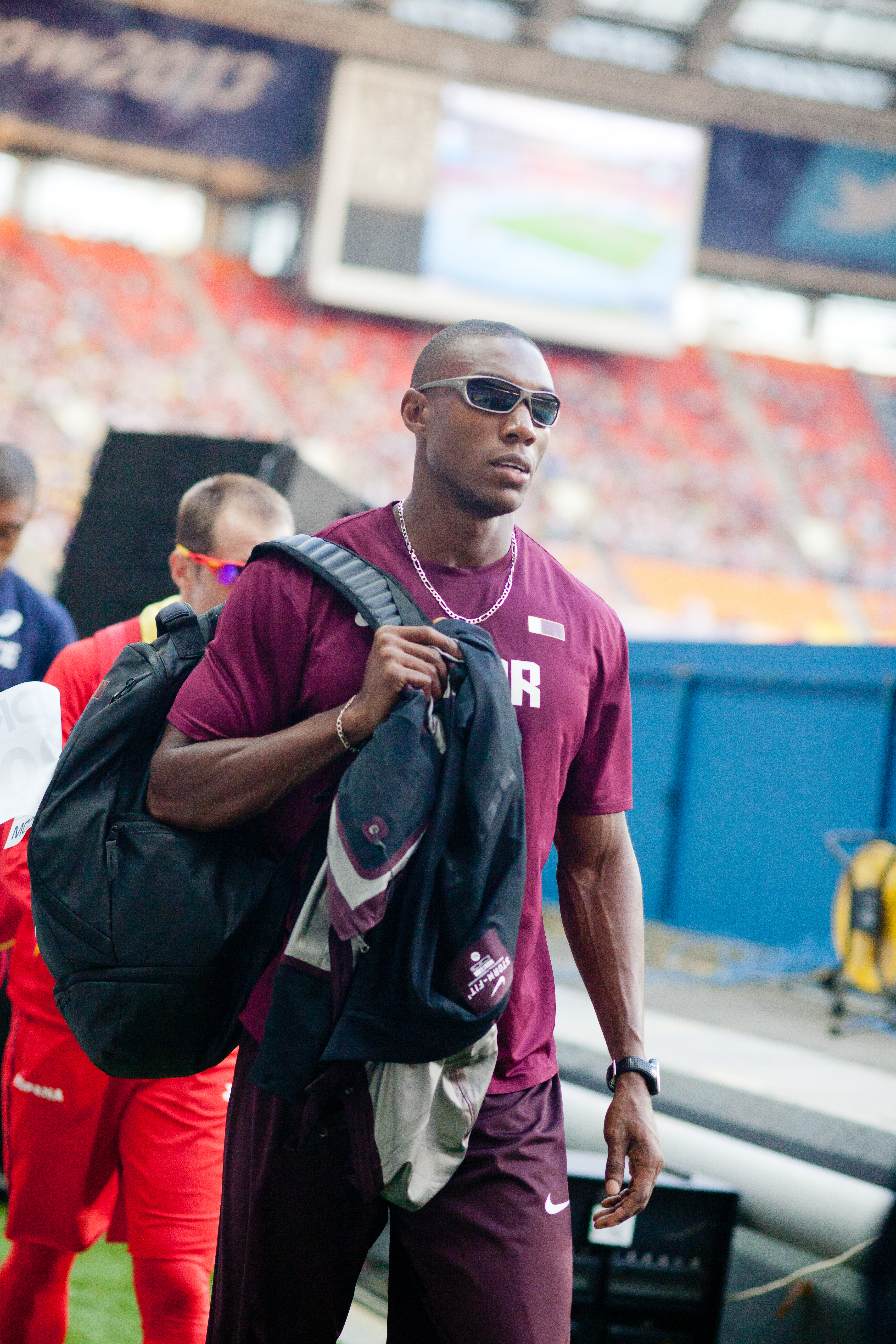 Samuel Francis during 2013 World Championships in Athletics in Moscow.